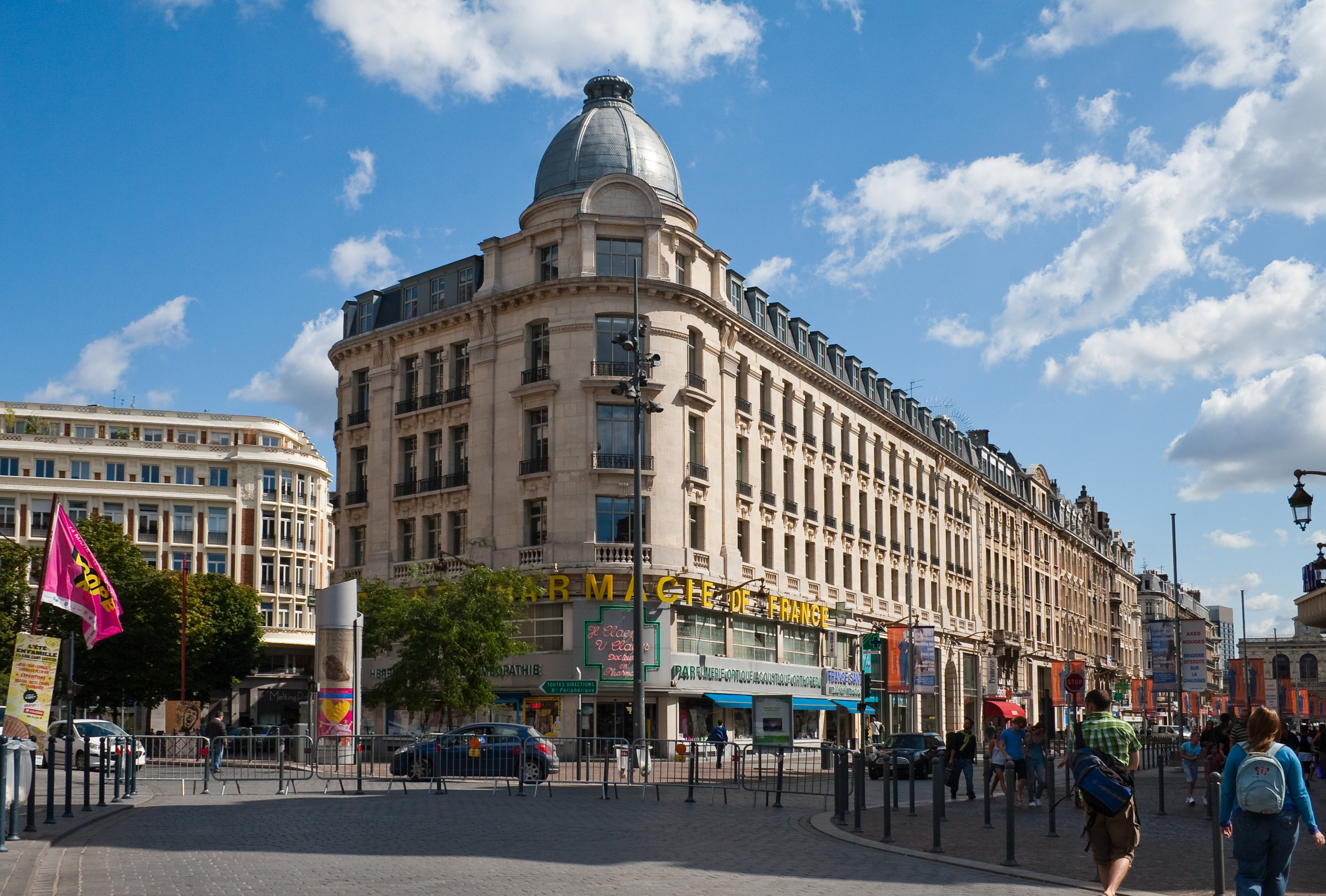 Rue Faidherbe as seen from the Place du Théatre. The buildings along this street were constructed c. 1870 in the Haussmannian style, following the principles of an elegant and homogenous “street-wall”.